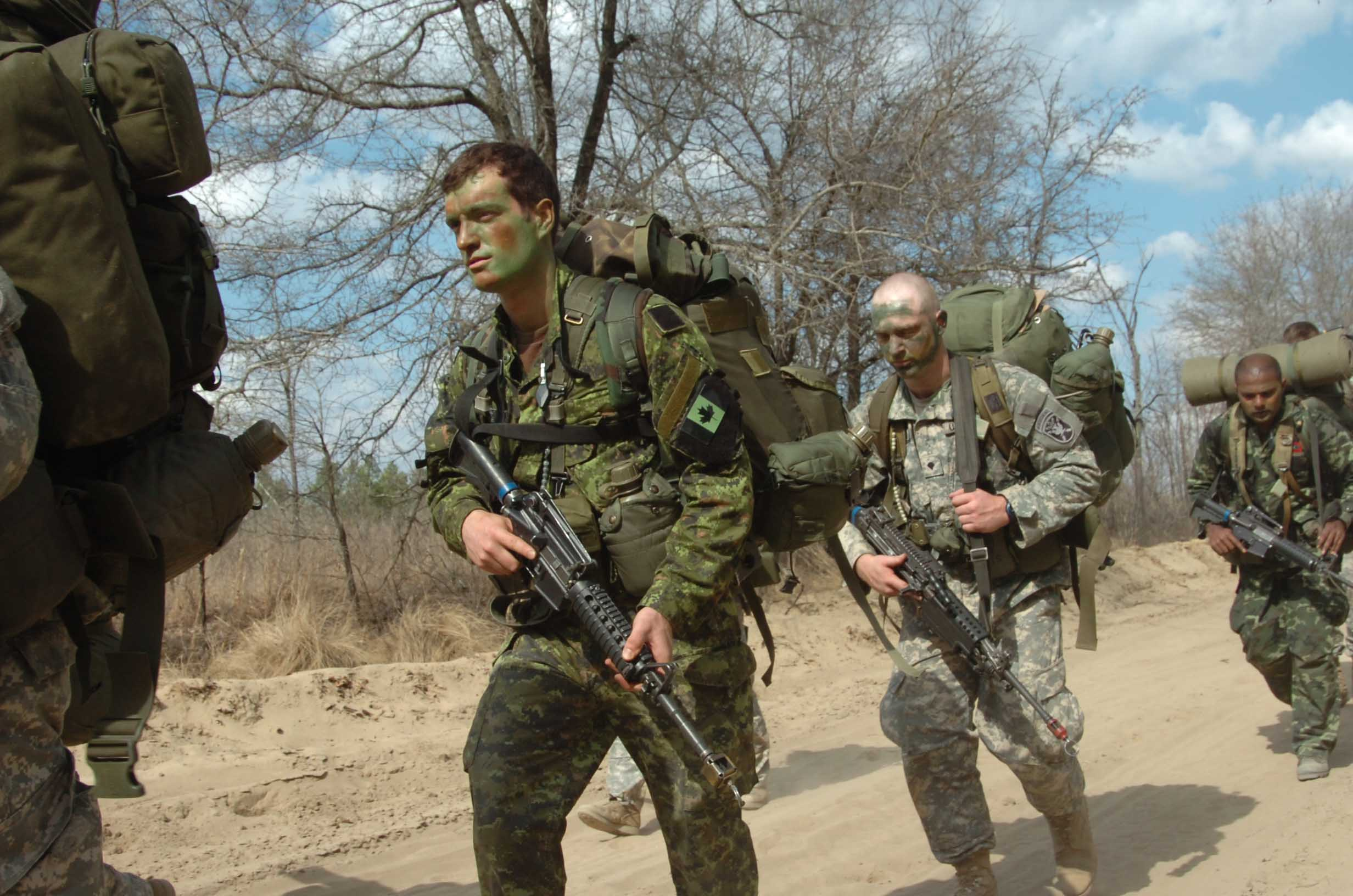 International military students train alongside U.S. Army Soldiers during the Special Forces Qualification Course taught by the U.S. Army John F. Kennedy Special Warfare Center and School at Fort Bragg, N.C.